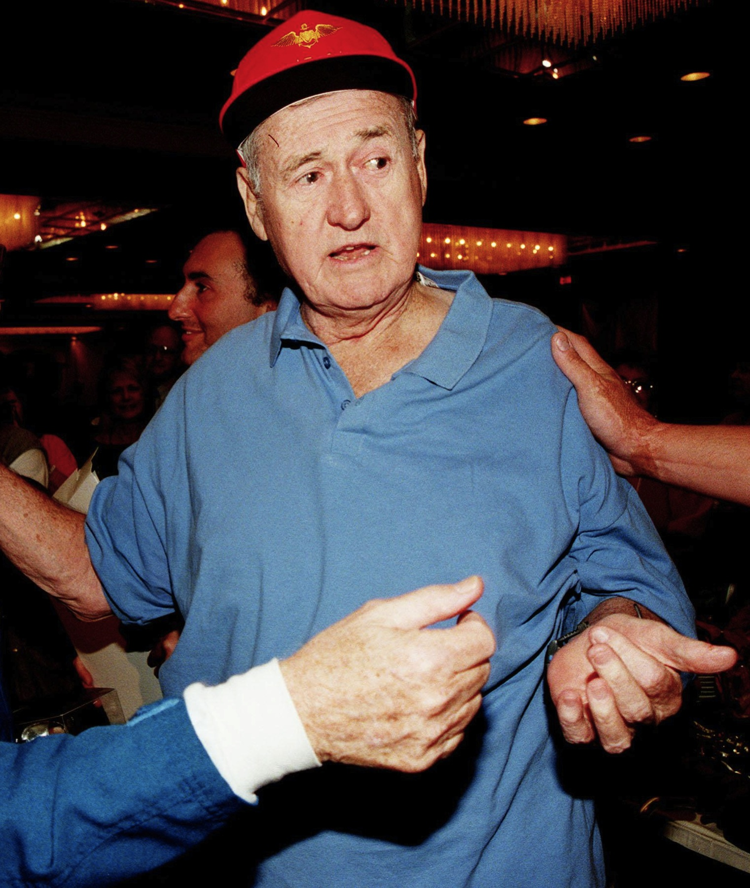 Baseball legend Ted Williams at a reception at the Double Tree Oceanfront Hotel following a parade down State Road A1A in nearby Cocoa Beach. This file has been extracted from another file: Ted Williams and John Glenn 1998.jpg